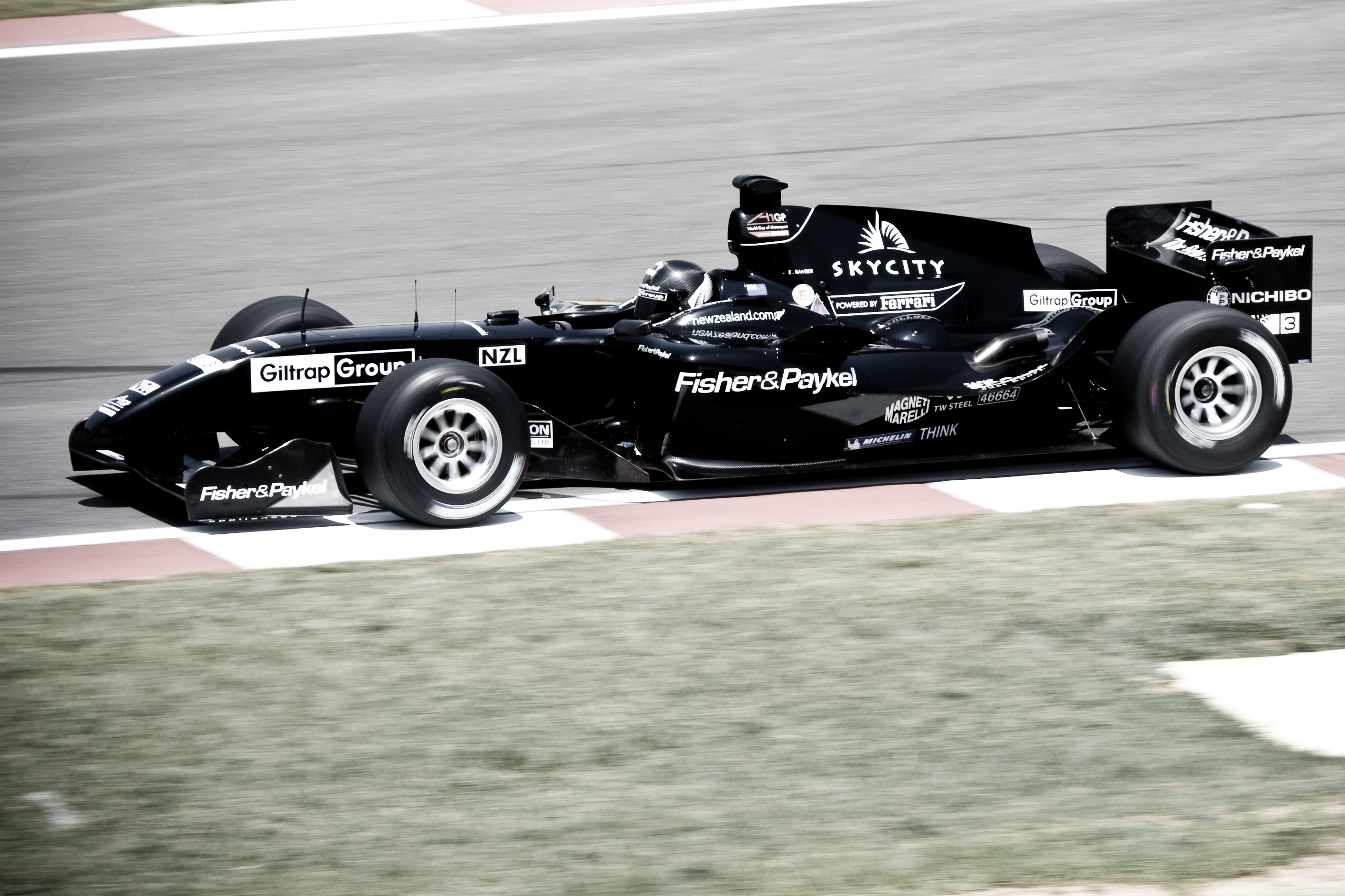 Team New Zealand @ A1 Grand Prix Kyalami South Africa 2009